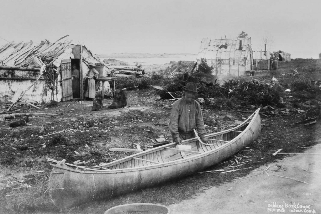 Photograph, "Ribbing" a bark canoe, Mi'kmaq camp, Matapedia(?), QC(?), about 1870, Alexander Henderson, Silver salts on paper mounted on card - Albumen process - 11.7 x 19.1 cm